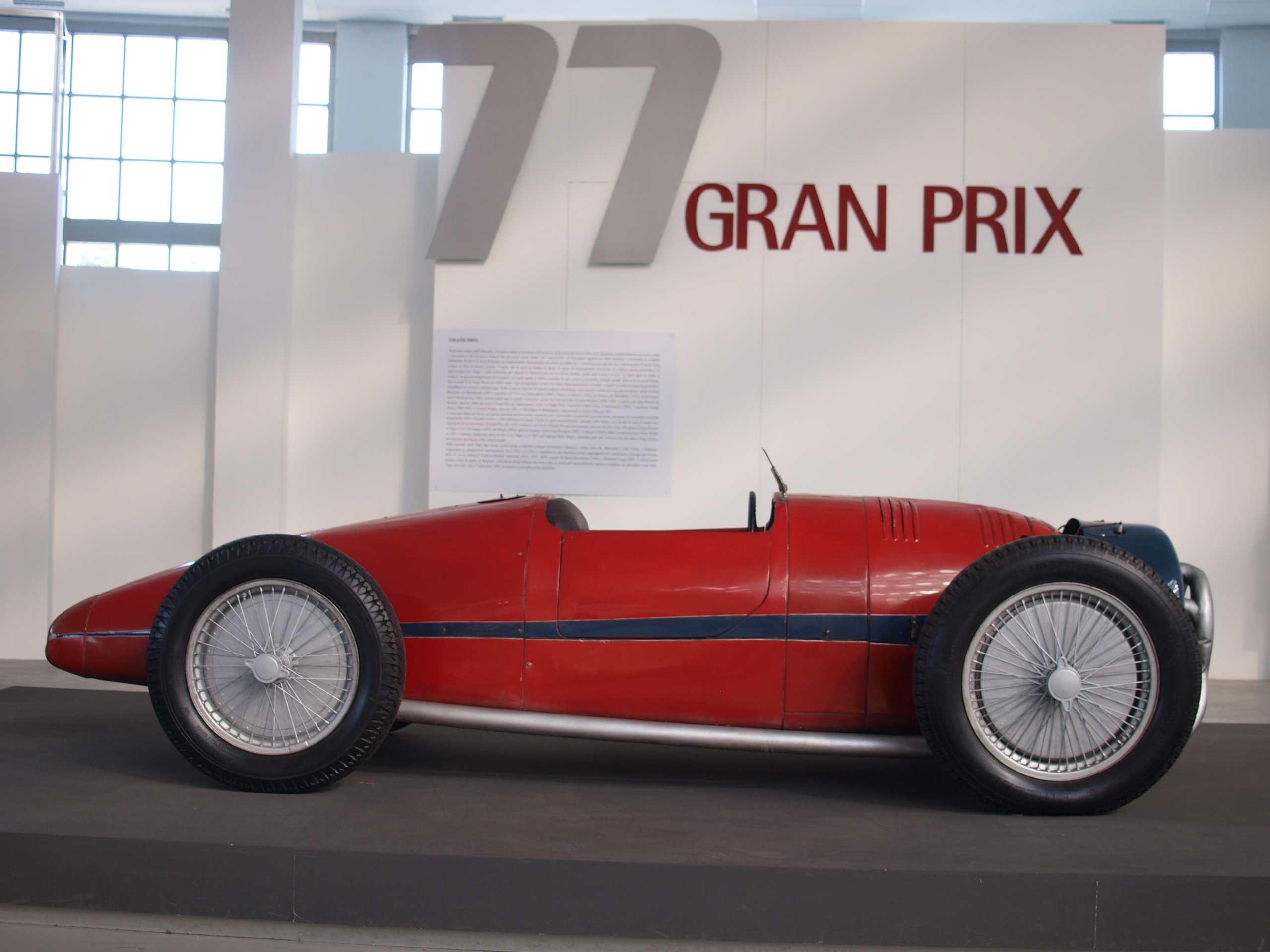 At the "L’evoluzione dell’automobile" display/exhibition at the Museo Nazionale dell'Automobile di Torino in 2009.